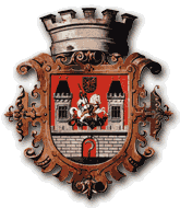 Municipal coat of arms of Napajedla town, Zlín District, Czech Republic.